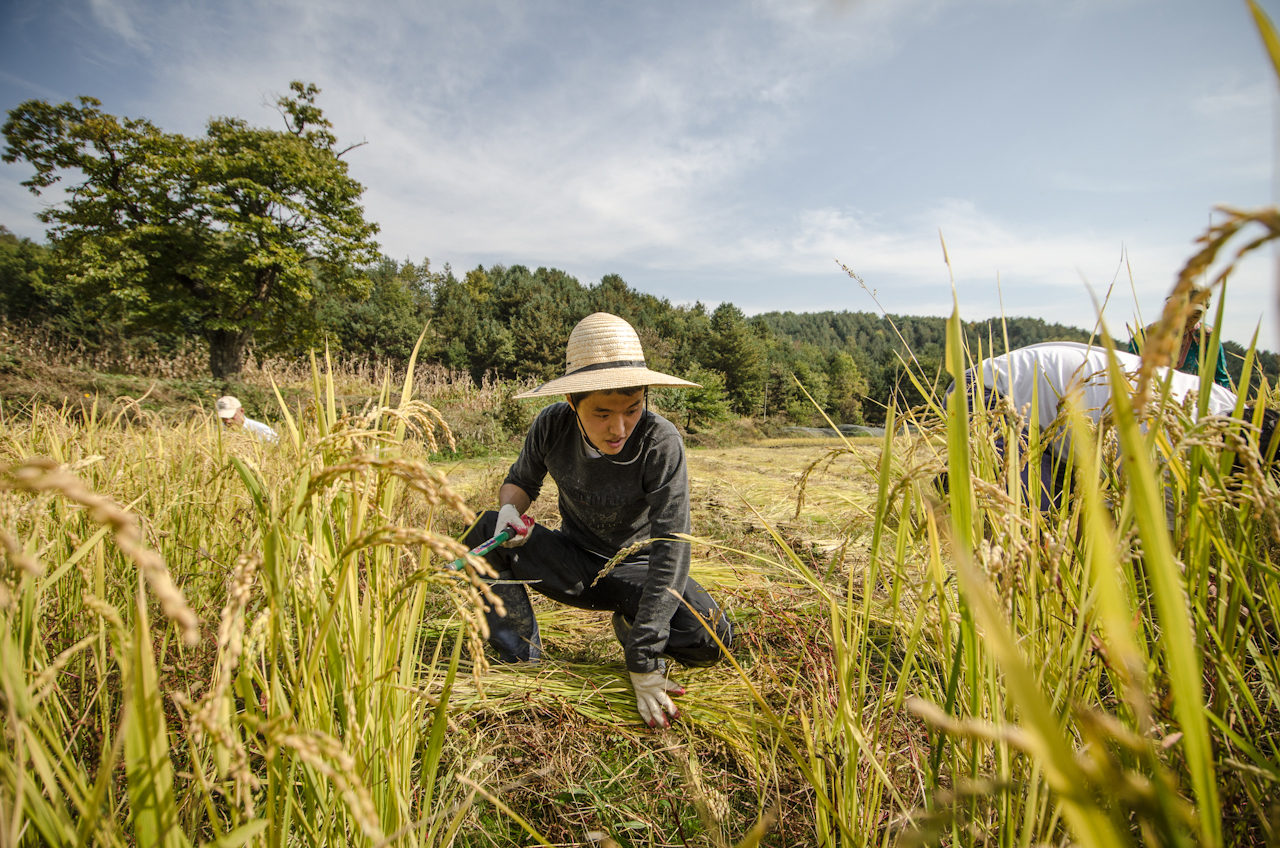 A young man helps harvest rice by hand at a natural farm in Hongcheon Province, South Korea. This is a production still from the documentary film "Final Straw: Food, Earth, Happiness"Film still from "Final Straw, Food, Earth, Happiness" of natural farmer harvesting rice